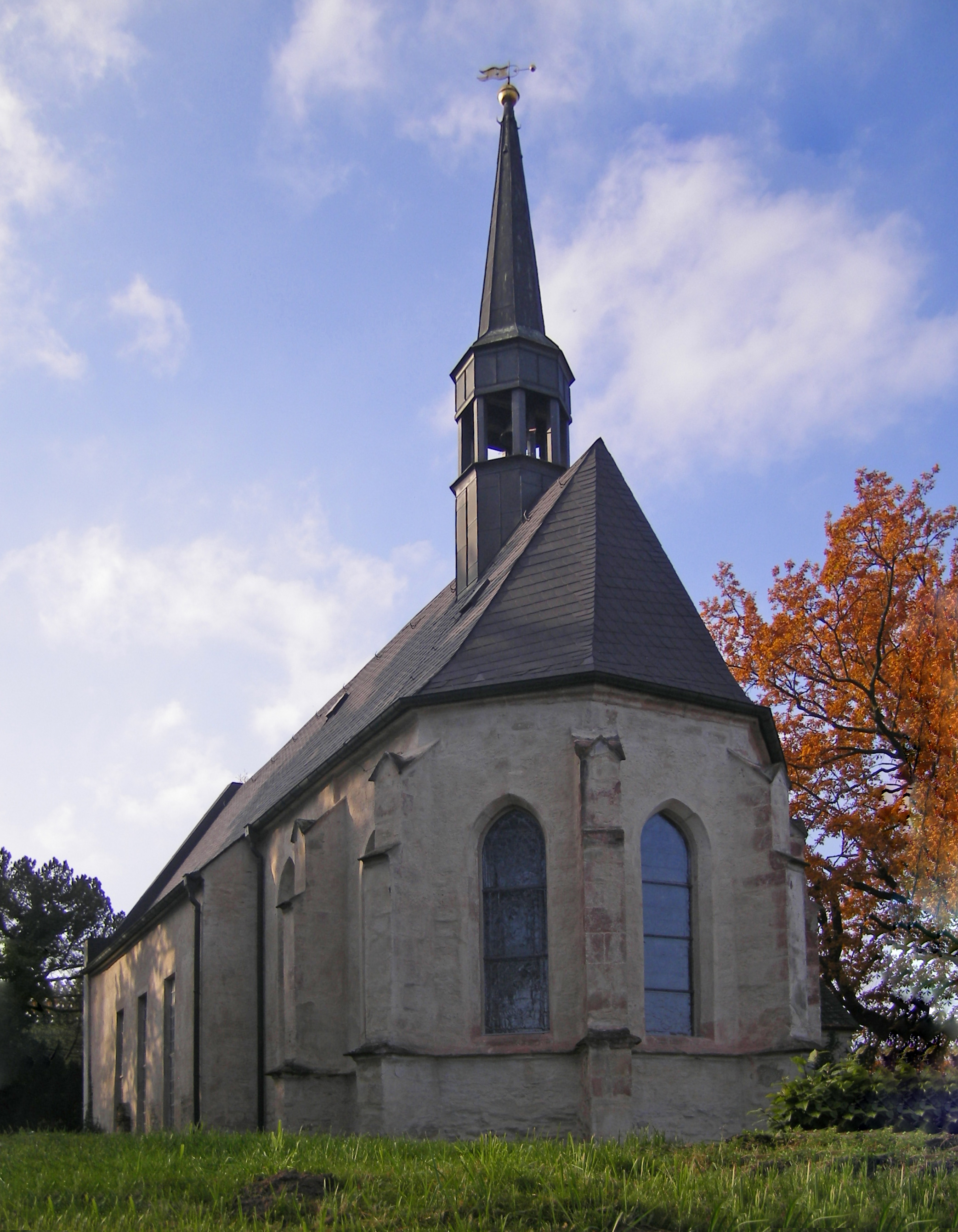 Church in Kriebitzsch near Altenburg/Thuringia